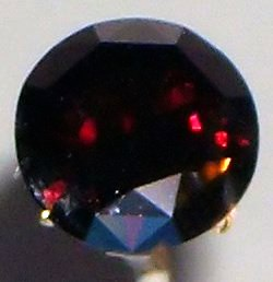 DeYoung Red diamond from the Museum of Natural History